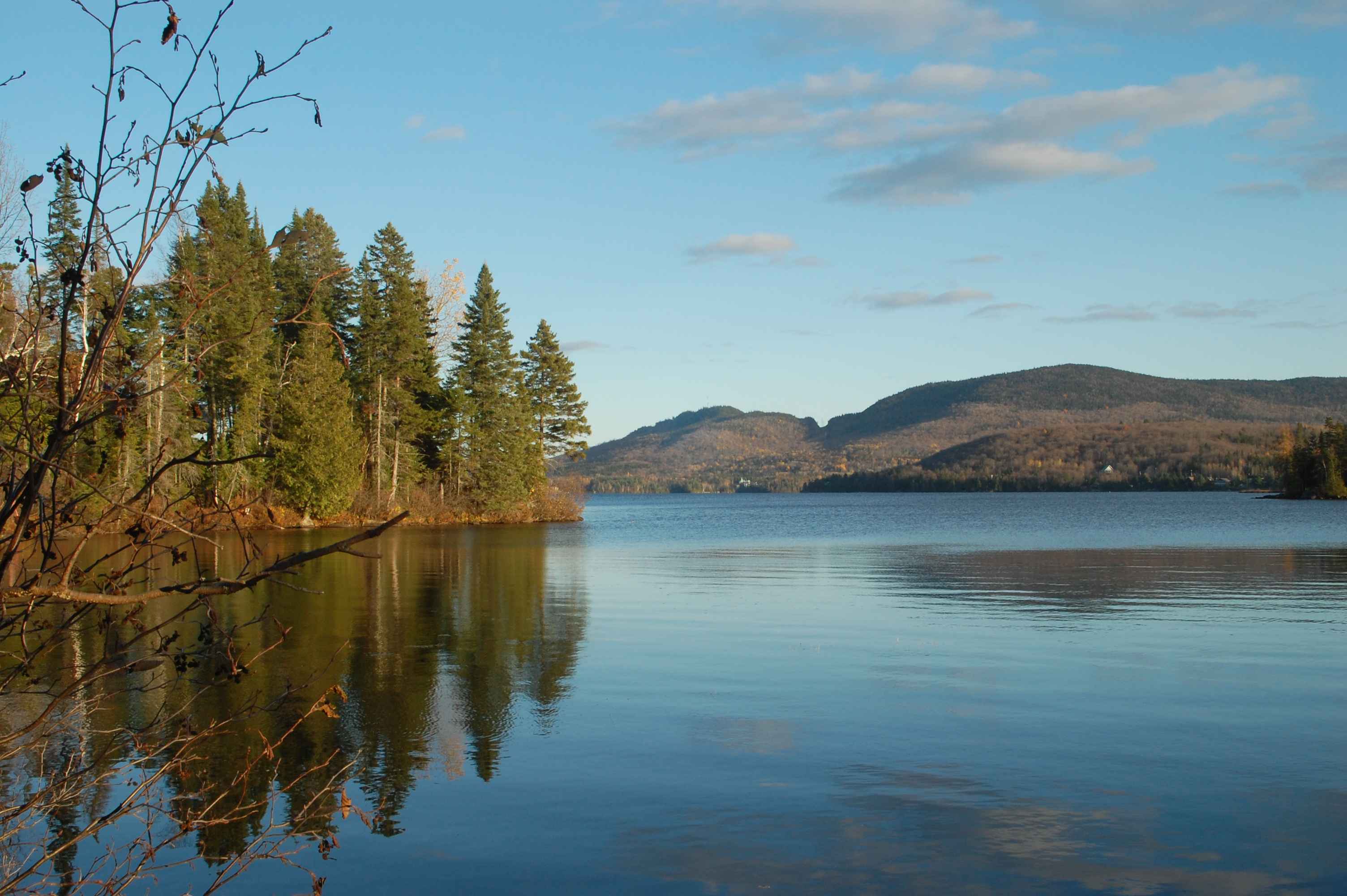 Scene of Lac Archambault, in Saint-Donat-de-Montcalm, Québec